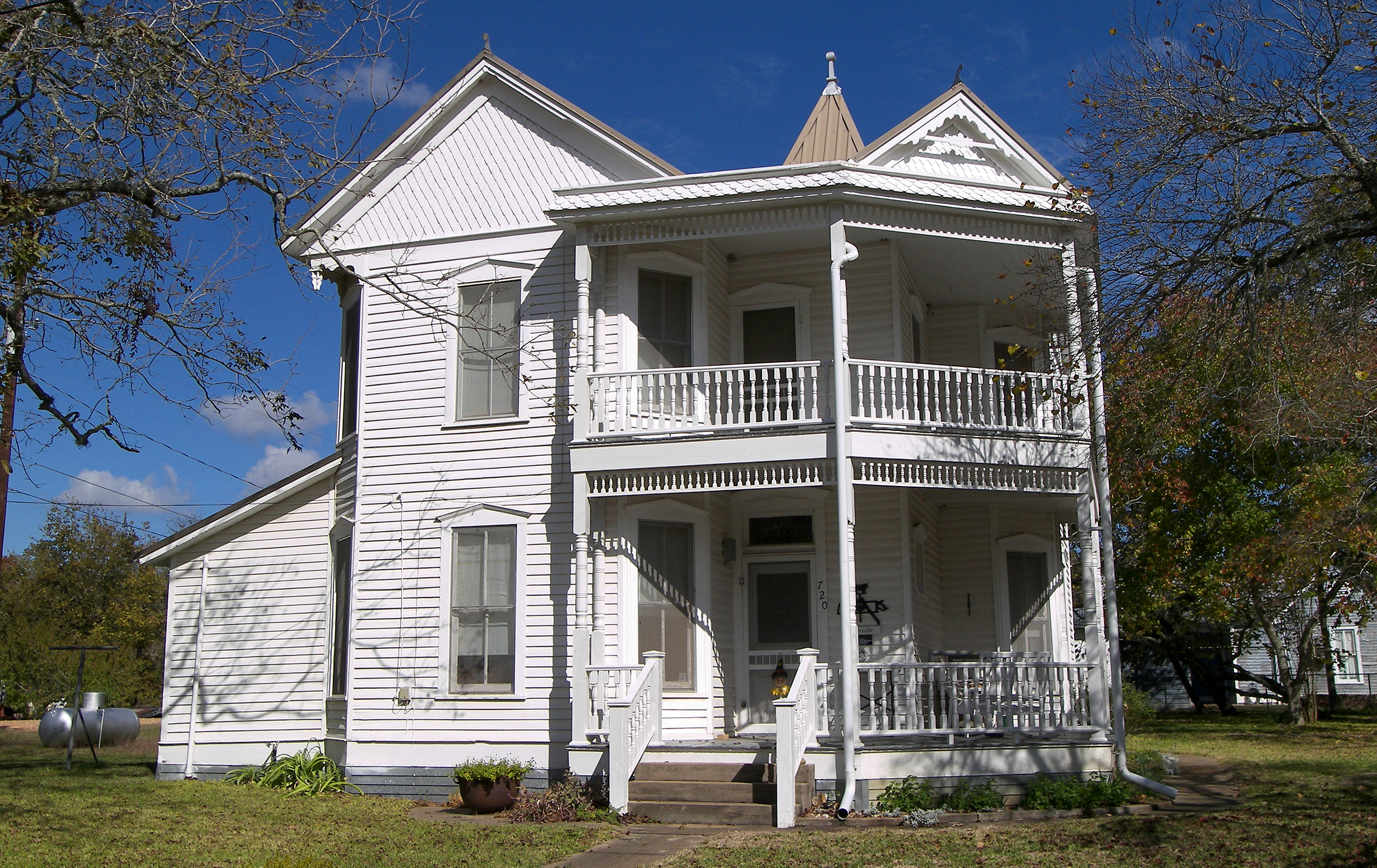 The Kneip-Bredthauer House located in Burton, Texas, United States. The house was listed on the National Register of Historic Places on June 11, 1991.